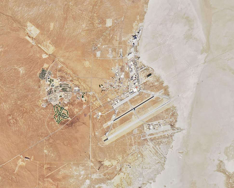 Satellite image of the Edwards Air Force Base in California. Located at the Rogers Dry Lake in the Mojave Desert in California. On July 1, 2019, Operational Land Imager (OLI) on NASA's Landsat 8 acquired this image.